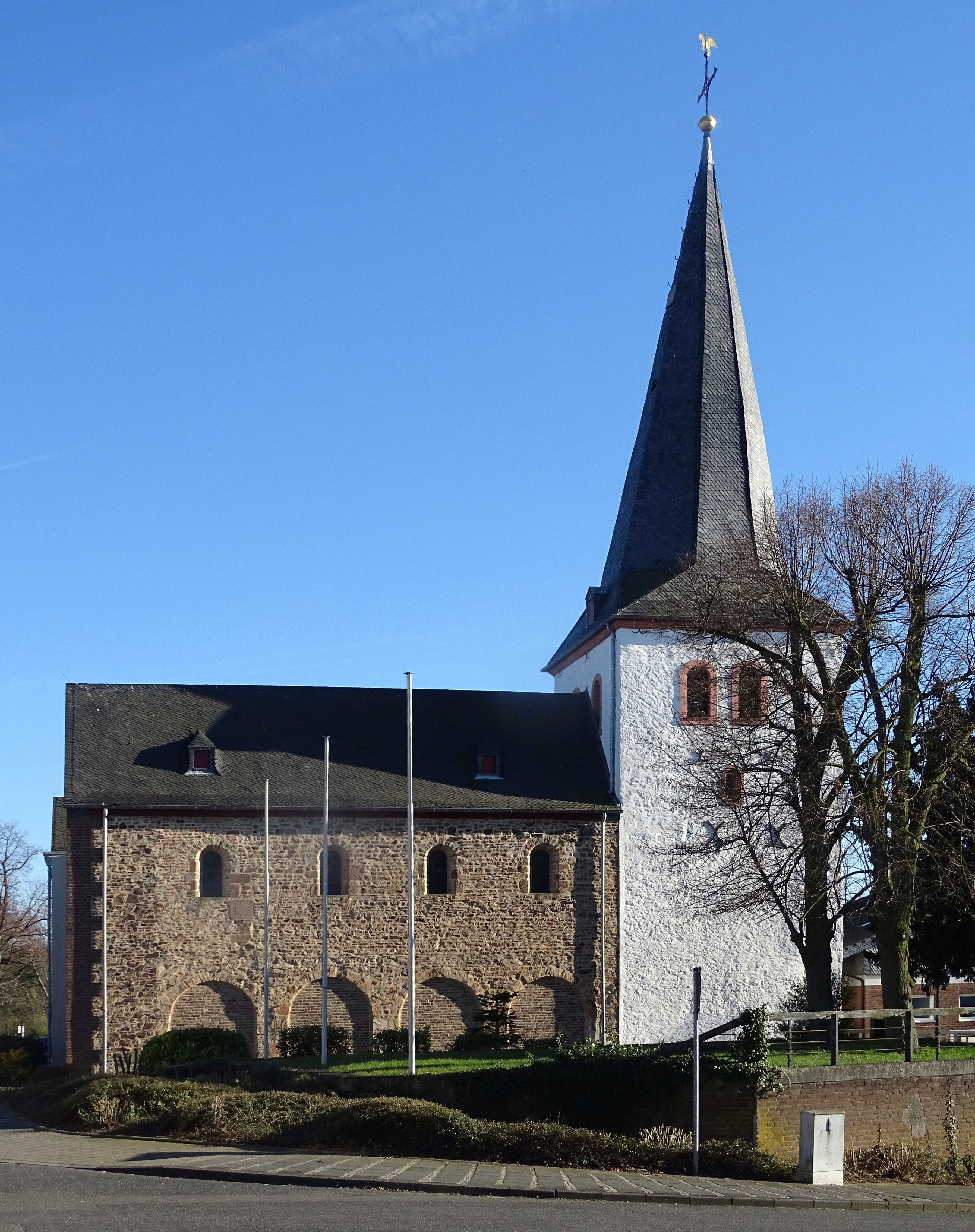 Catholic church of St. Michael in Großbüllesheim